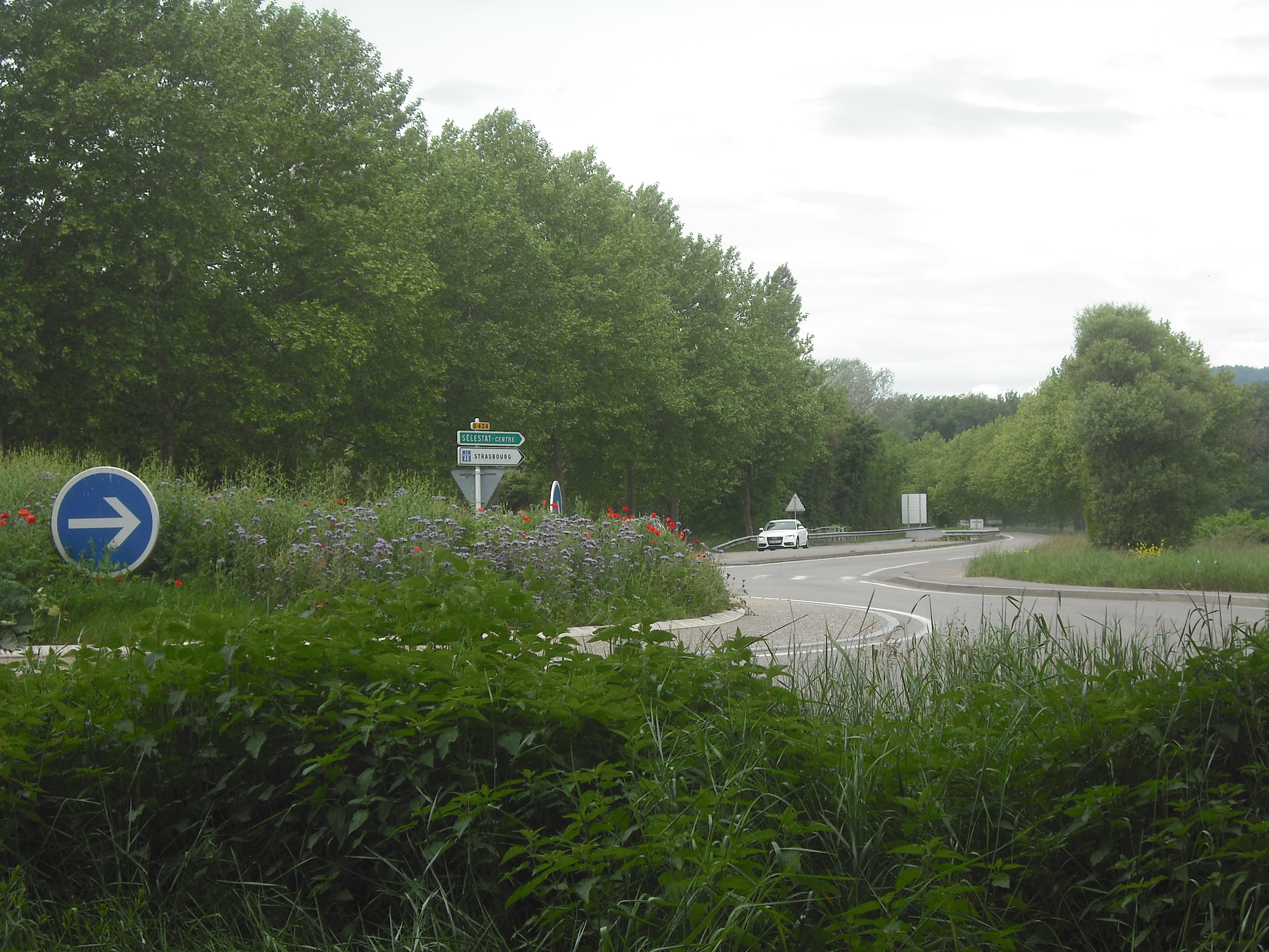 Route D424 à Sélestat, au croisement de la D159.